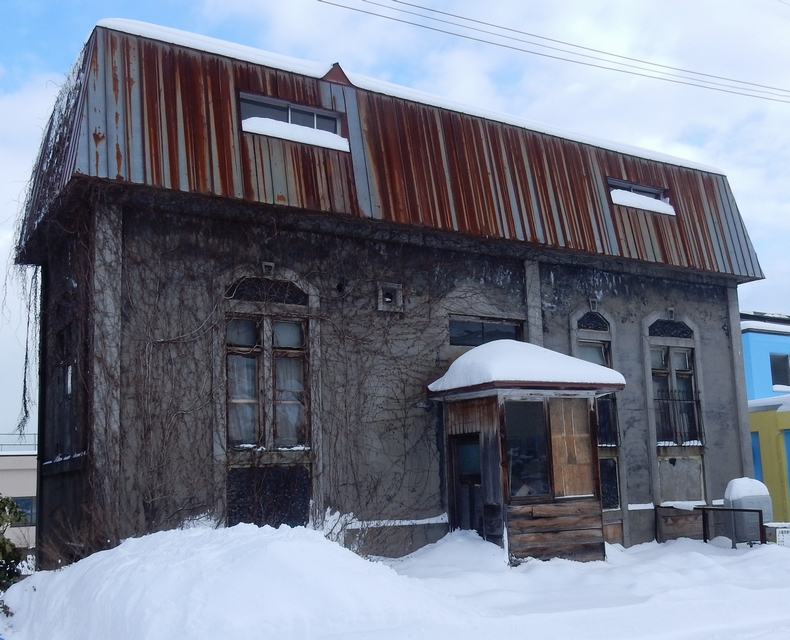 Maruyo Ishibashi Shōten